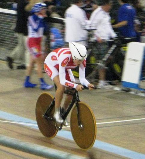 Trine Schmidt at World Cup in Los Angeles, 2008.